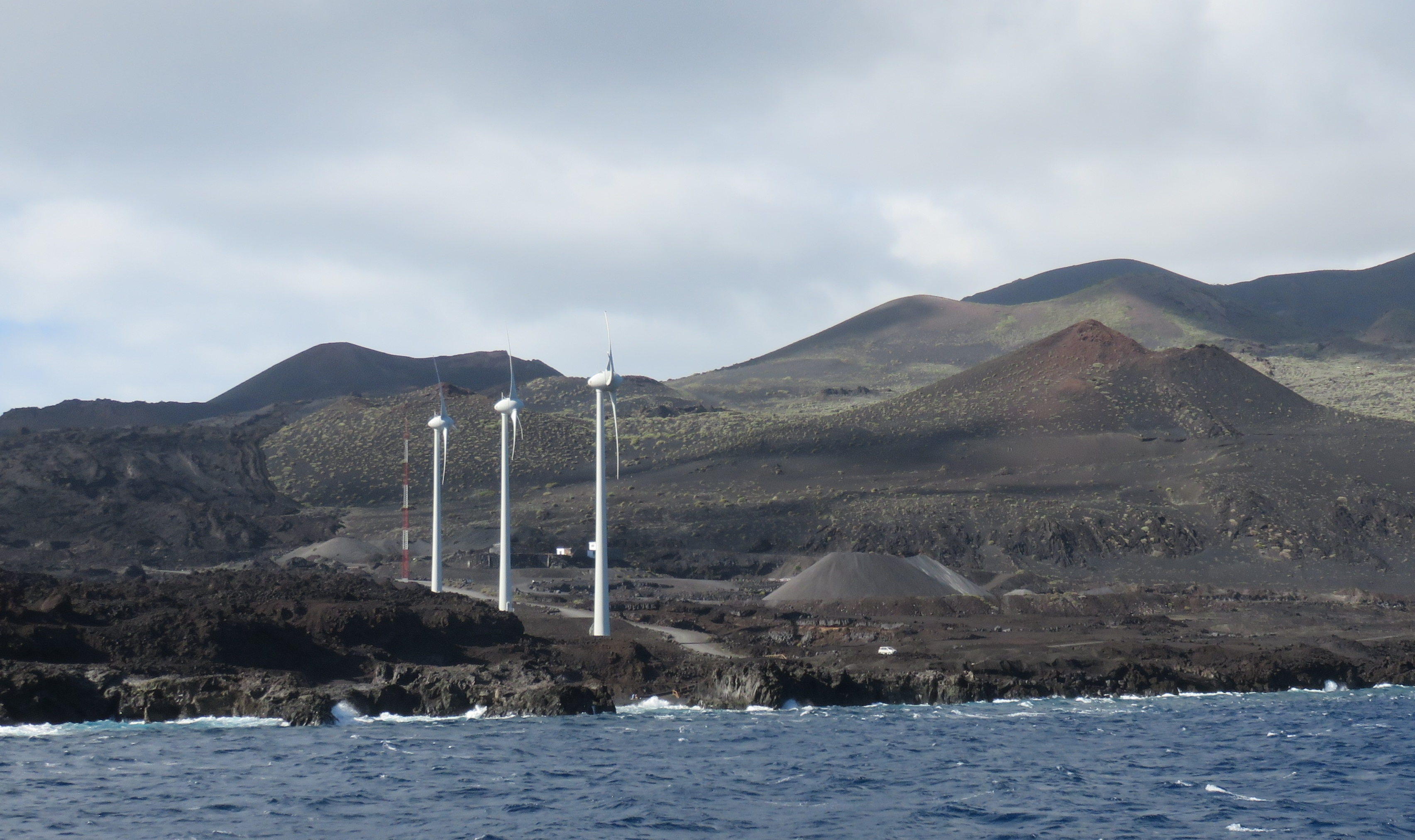 La Palma, Fuencaliente, Punta Malpais